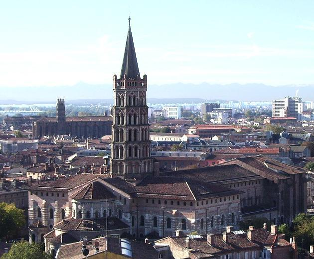 Toulouse (France), view on Saint-Sernin basilica